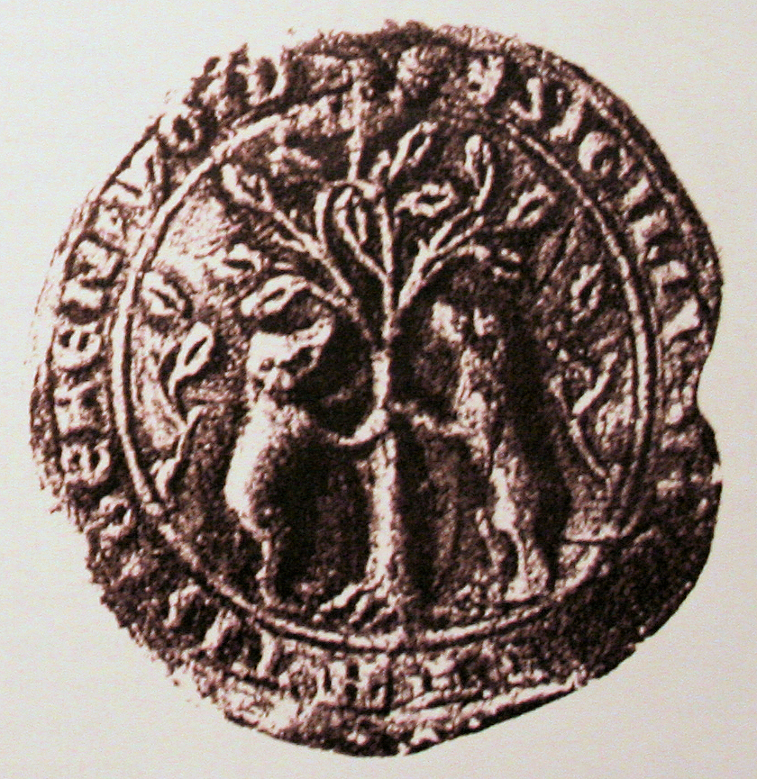 Old seal of Mieszkowice town, year 1364